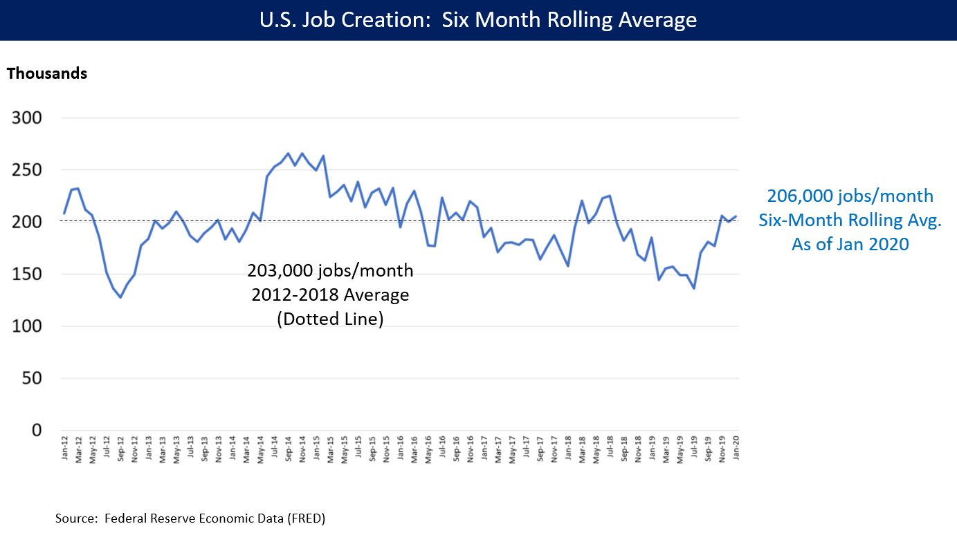 U.S. Job Creation Rolling Six Month Average